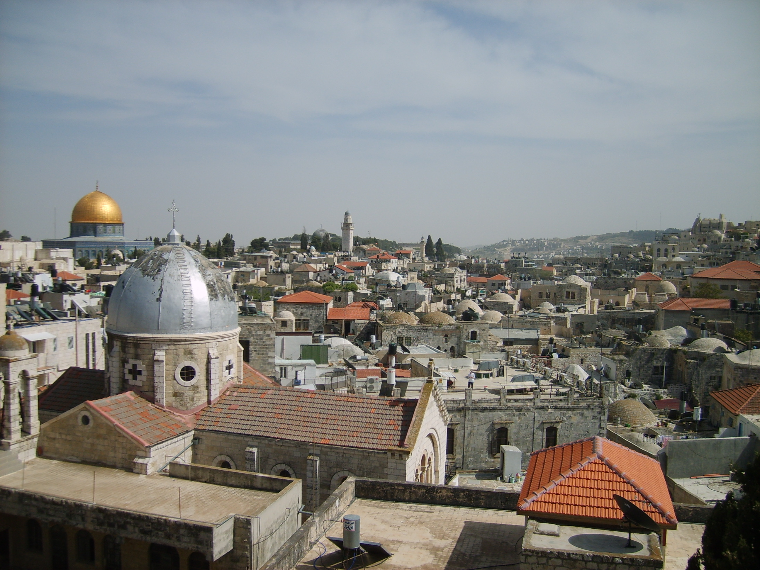 Photo taken from the roof terrace of the Austrian Hospice of the Holy Family in the Muslim Quarter of old Jerusalem, looking towards the south. In the foreground the silver dome of the armenian catholic church "Our Lady of the Spasm". In front of this church there is the Fourth station of the Via Dolorosa. In the background, left hand, the golden Dome of the Rock.